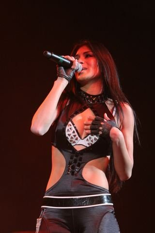 Nicole Scherzinger at the Tacoma Dome in Washington.